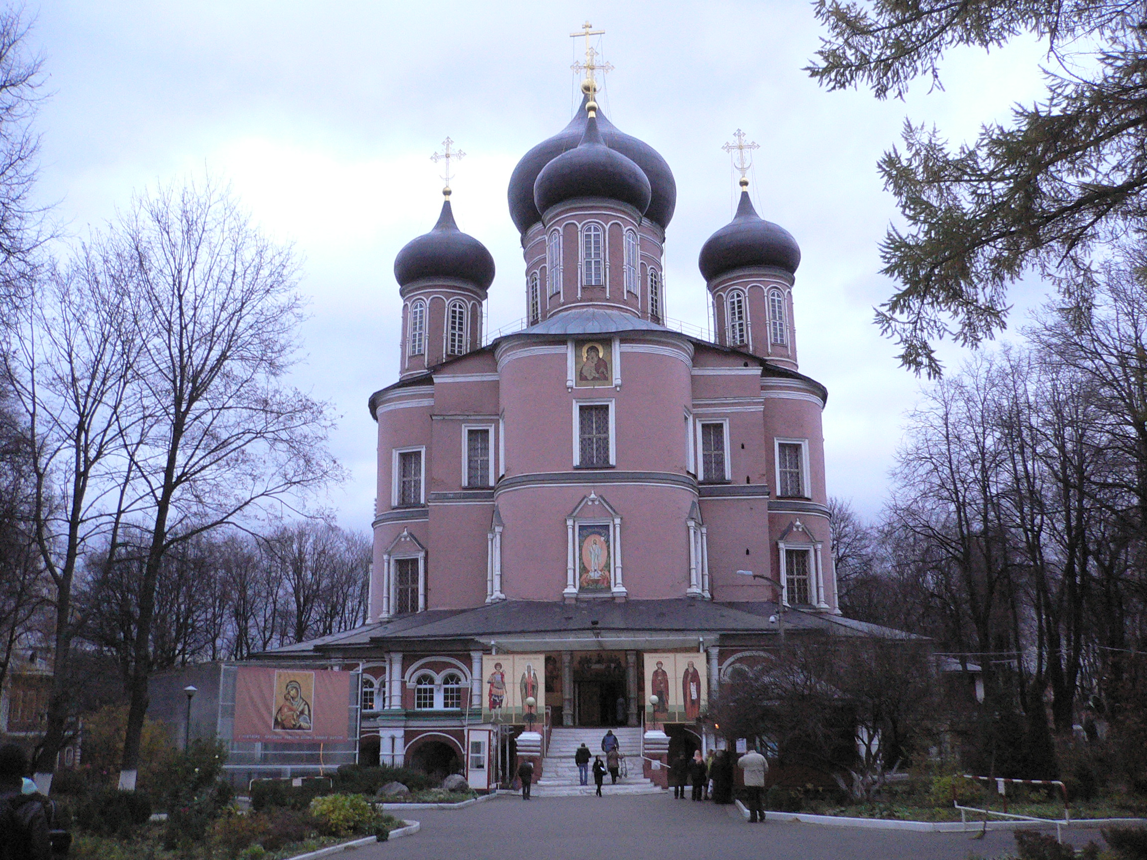 Great cathedral of Donskoy Monastery, Moscow